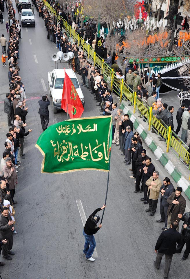 People from Arak in Ashura Day.